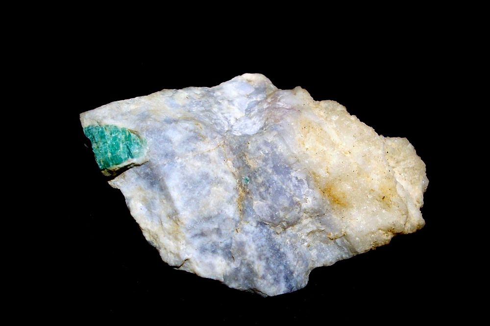 Locality: Morefield Pegmatite Mine; Amelia Co., Virginia, USA Lavender prosopite with green amazonite on one end and micro xls. of ralstonite & tomsenolite on the other end. Collected in the alumino-fluoride zone on the 45' level NE, July 2002. Owner MWylie